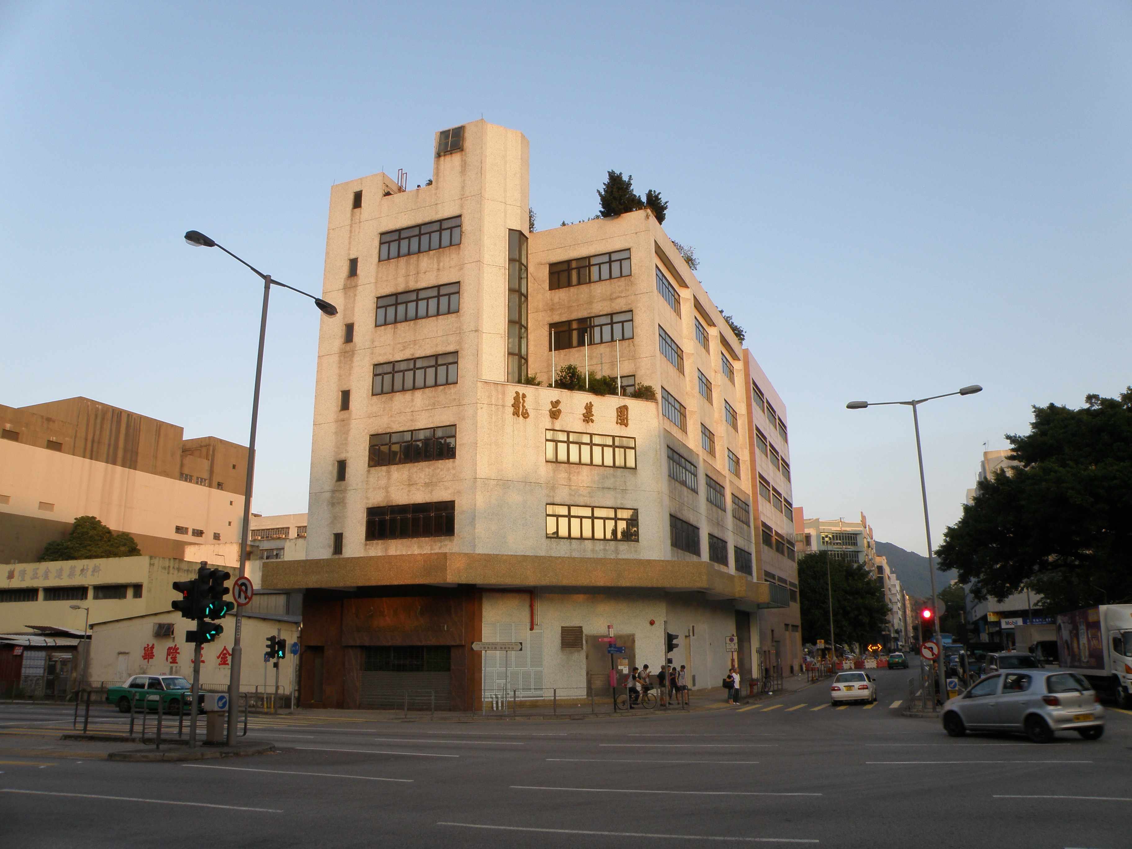 On Lok Tsuen Industrial Area in Fanling, Hong Kong.